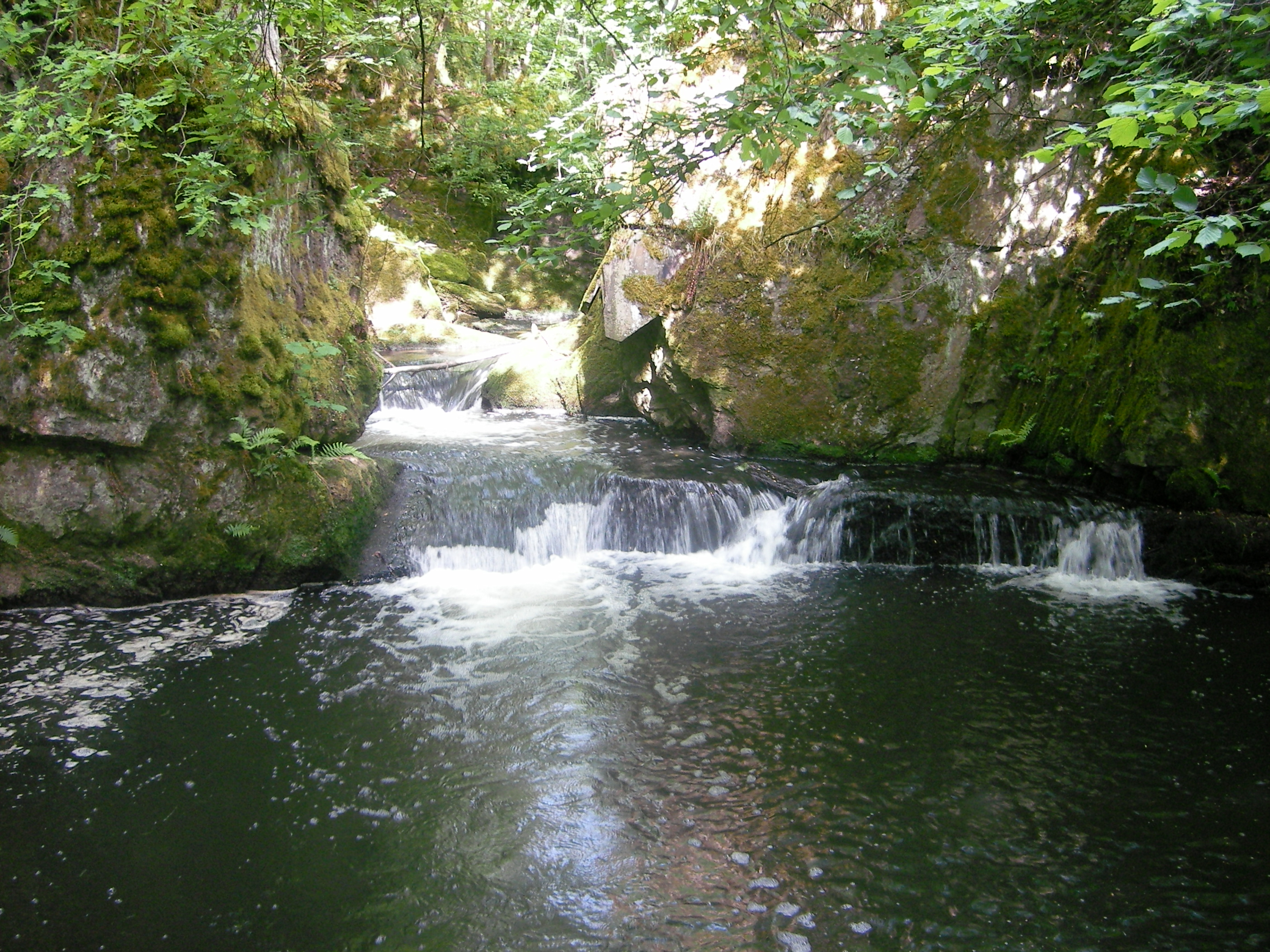 Small waterfalls